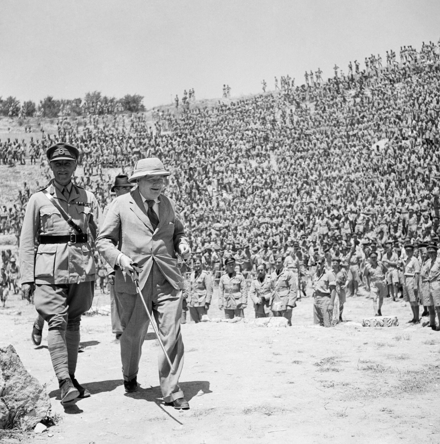 Winston Churchill standing in the Roman theatre of ancient Carthage to address 3,000 British and American troops.